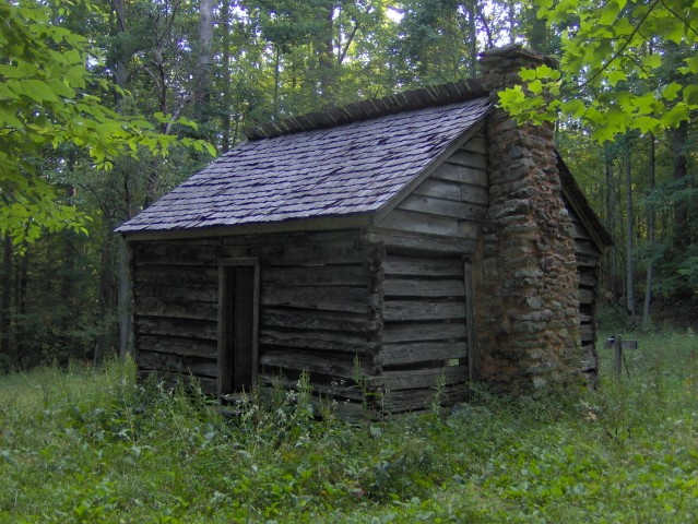 Baxter Cabin (also called Jenkins Cabin, after its latest owner) in the Great Smoky Mountains of East Tennessee. The cabin is located along the Maddron Bald Trail, near the Cocke County-Sevier County line. It was constructed by Willis Baxter and his son, William, in 1889. Baxter's chickenhouse is now located at the Mountain Farm Museum in Oconaluftee.